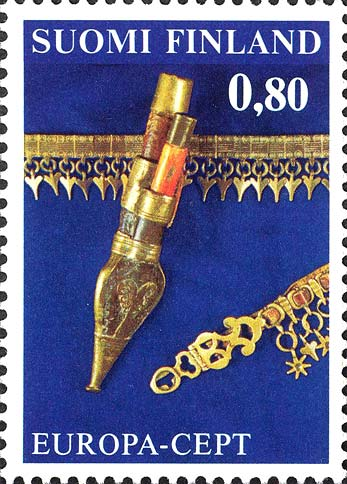 Postage stamps of Finland, 1976. Issue under the EUROPA CEPT program.